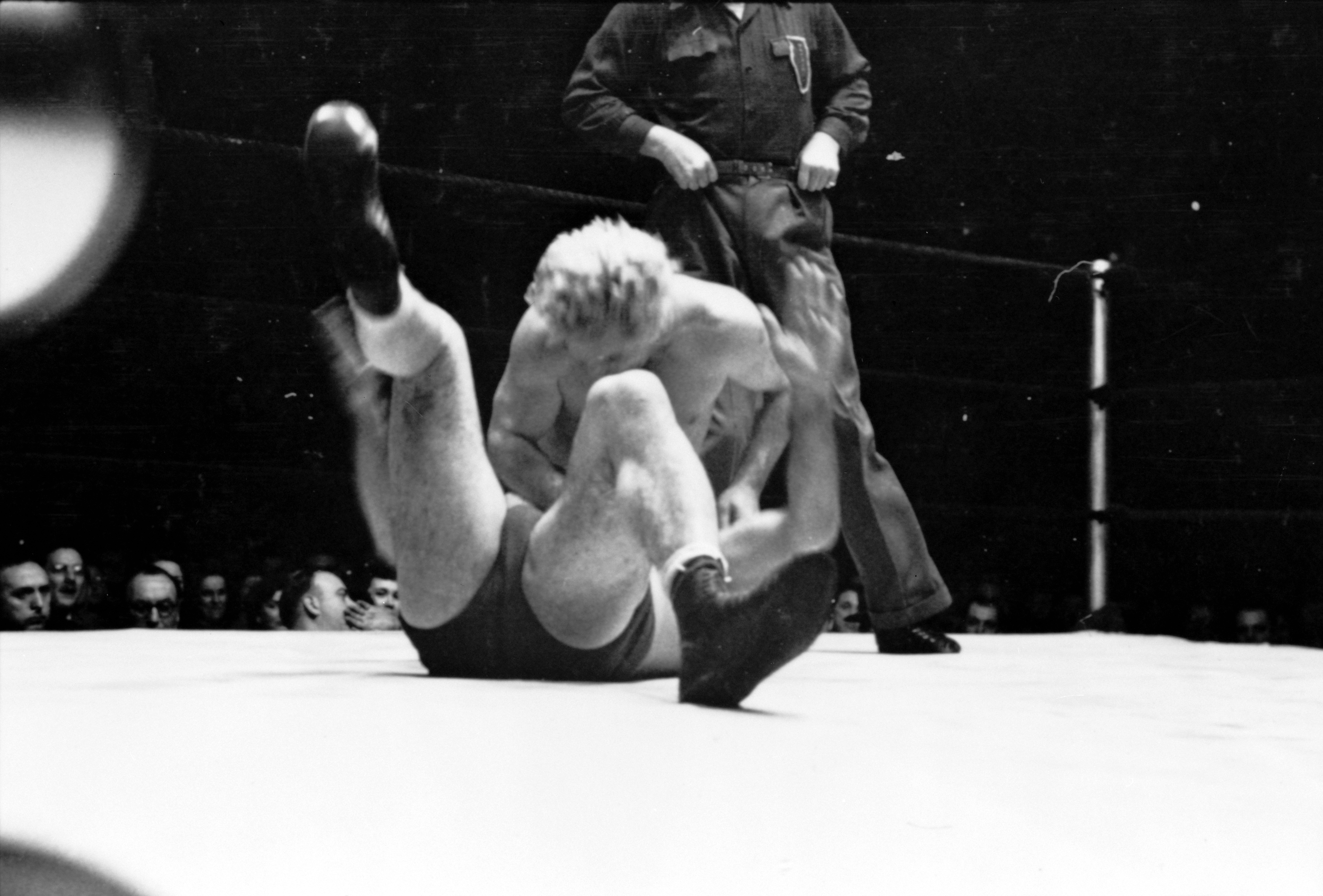 Gorgeous George attempting to pin to the mat another wrestler during a wrestling match. Image from Look photographic assignment with title: Chicago city of contrasts.